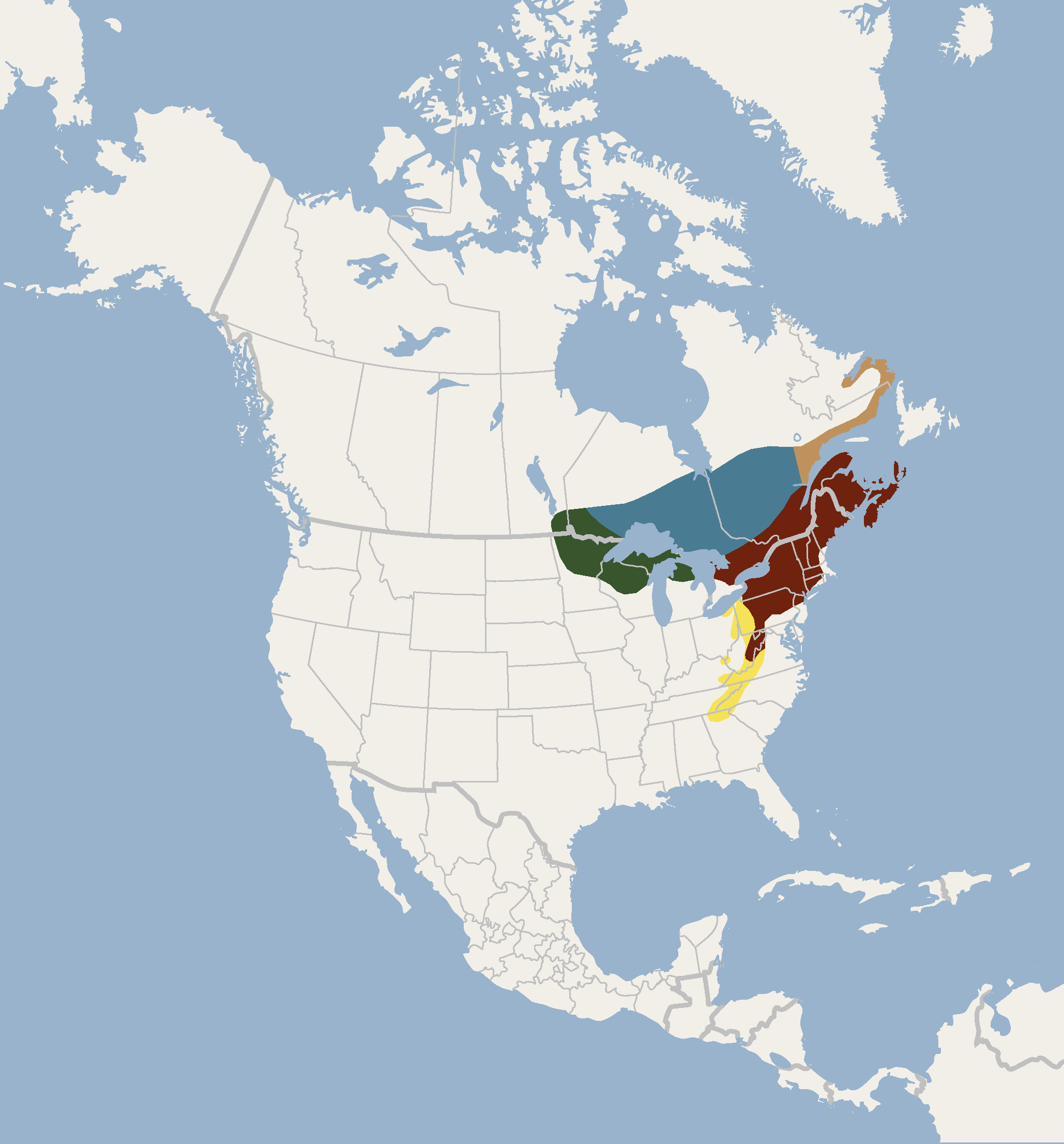 According to Hall, 1981